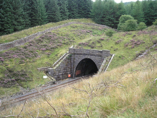 Blea Moor Tunnel. The northern entrance to Blea Moor Tunnel. At 2629 yards long, this is the longest on the Settle-Carlisle line.